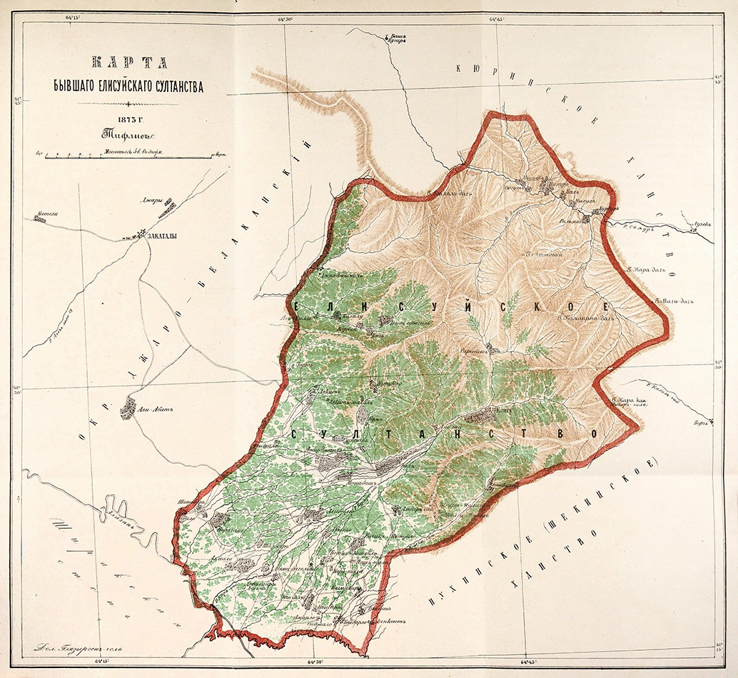 Map of the former Sultanate of Elisu. An illustration from the Collection of Information about the Caucasian Mountaineers (in Russian, 1868–1881)